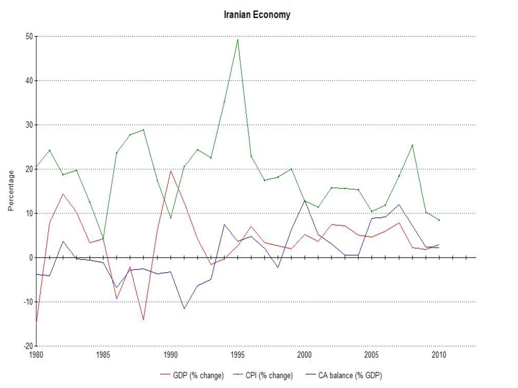 Economy of Iran (1980-2010): GDP, constant prices; Inflation, average consumer prices; Current account balance. Data source: IMF, World Economic Outlook Database, April 2010.